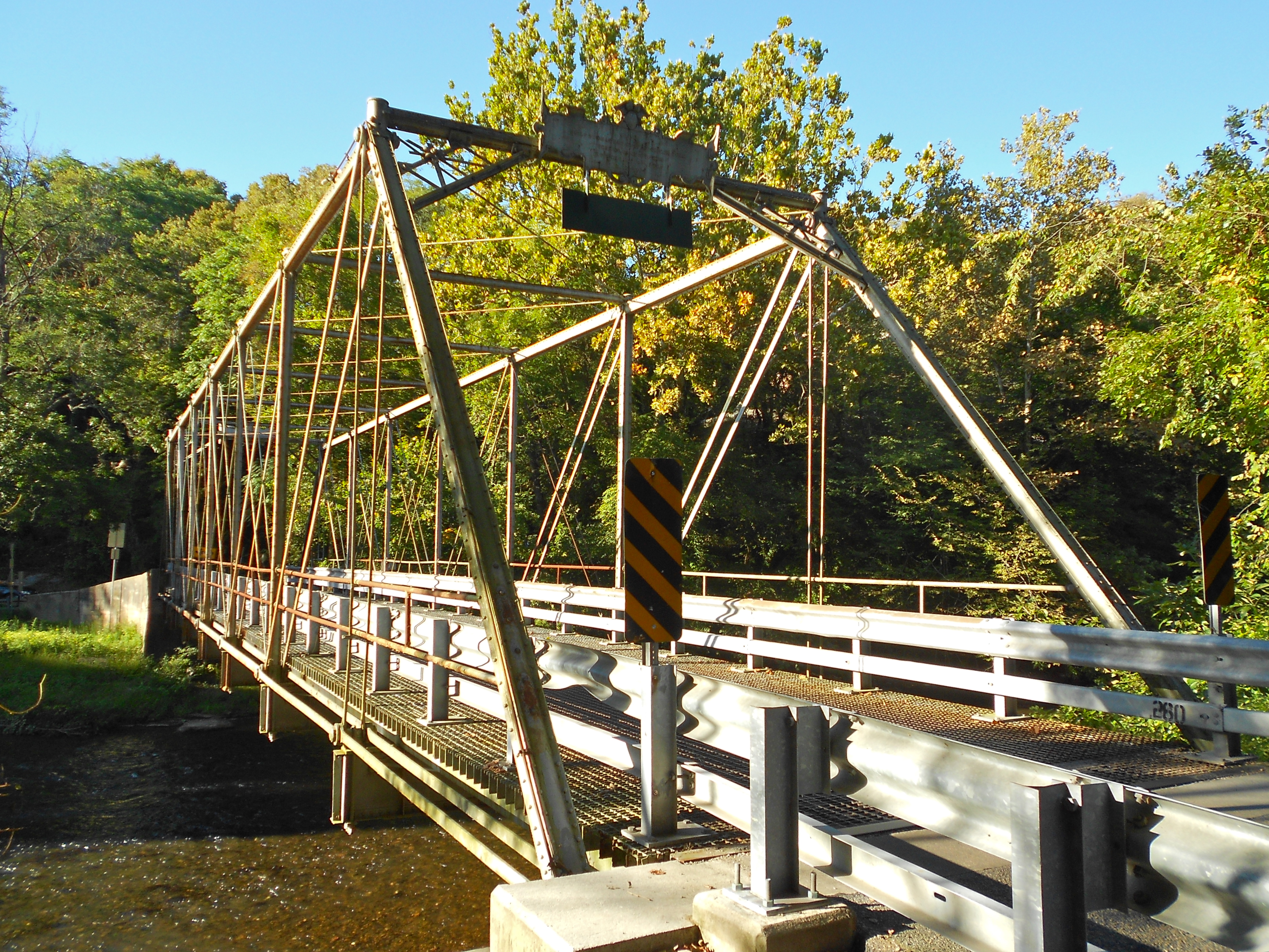 Etters Bridge aka Green Lane Bridge. Listed on the NRHP on February 27, 1986. At Green Lane Drive crossing Yellow Breeches Creek, in Fairview Township, York County, Pennsylvania, extending into Cumberland County